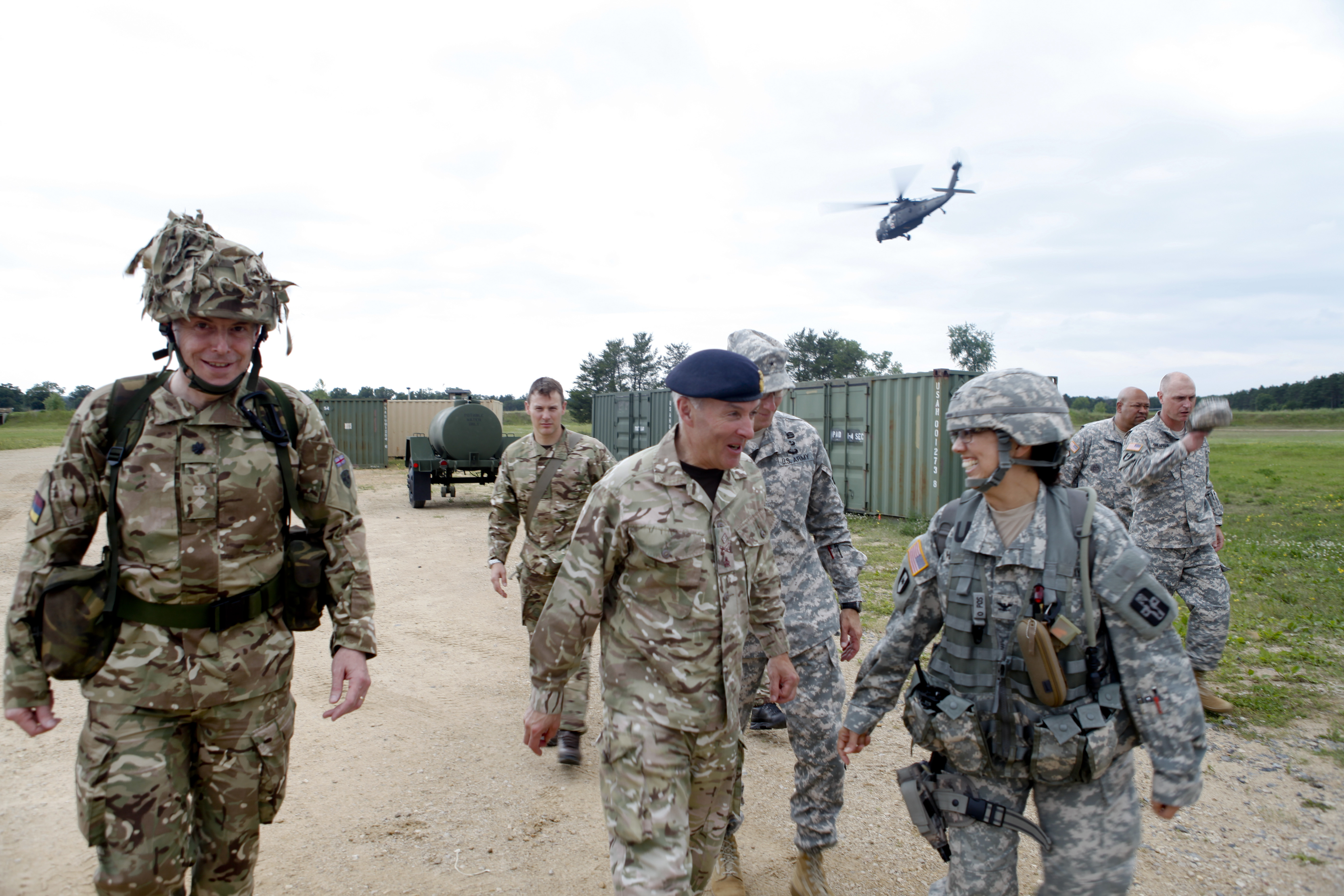 U.K. Army Reserve Director General of Army Medical Service Maj. Gen. Jeremy Rowan visits Forward Operating Base Freedom during Combined Joint Atlantic Serpent and Global Medic at Fort McCoy, June 20, 2015. Combined Joint Atlantic Serpent enhances the interoperability between international forces by exercising field medical practices while sharing equipment, protocols and battle drills in a tactical training environment. Global Medic is the premier medical field training event in the Department of Defense and is the only joint accredited exercise conceived, planned and executed by Army Reserve Soldiers, who are part of the Medical Readiness Training Command, Army Reserve Medical Command. Service members from multiple DoD branches train together in a joint force environment, further strengthening their abilities to serve together around the globe. Melding CJAS with Global Medic results in the single largest medical training field medical training exercise on the planet. (U.S. Army photo by Pfc. Christopher Martin/Released)